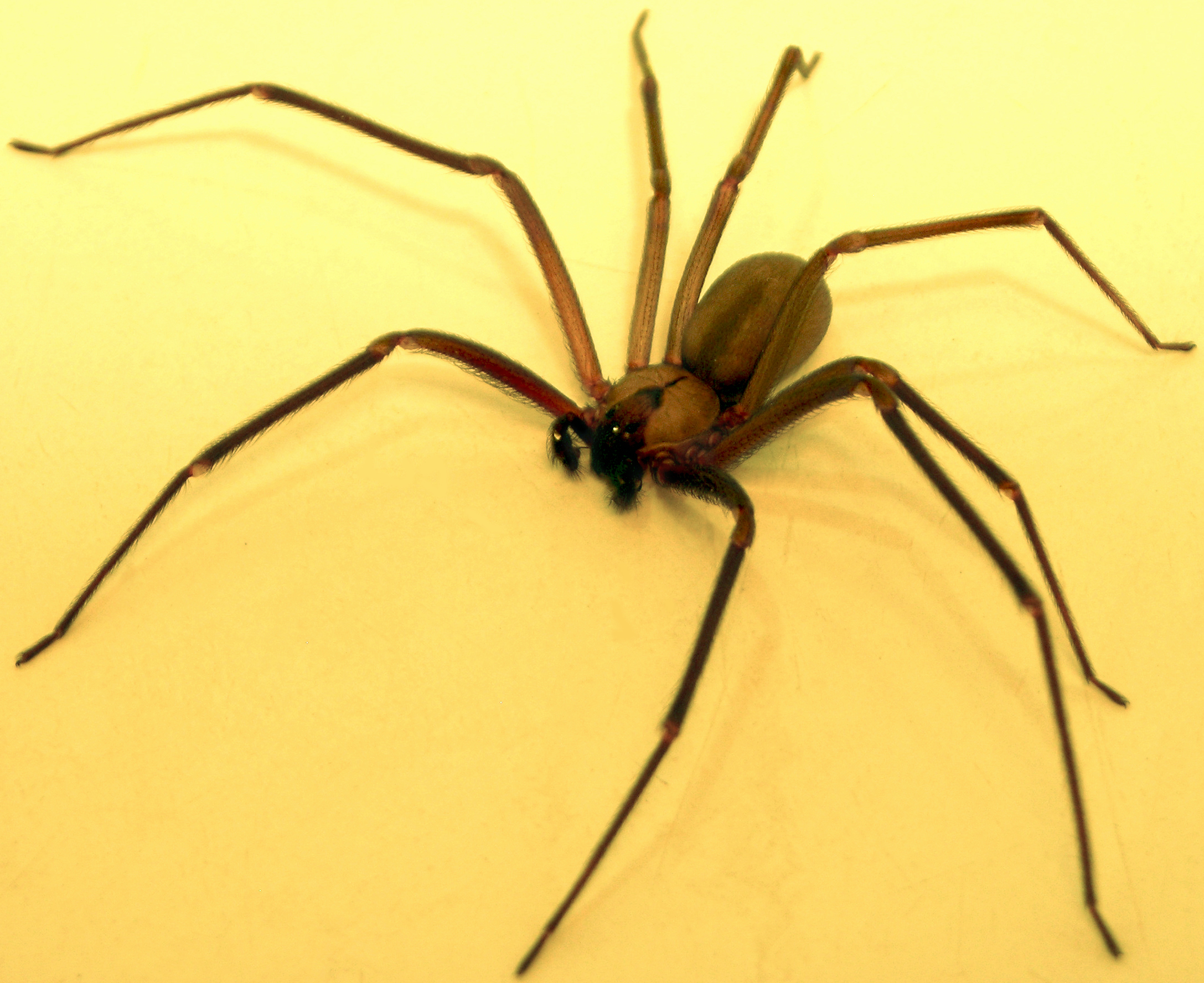 picture with no flash